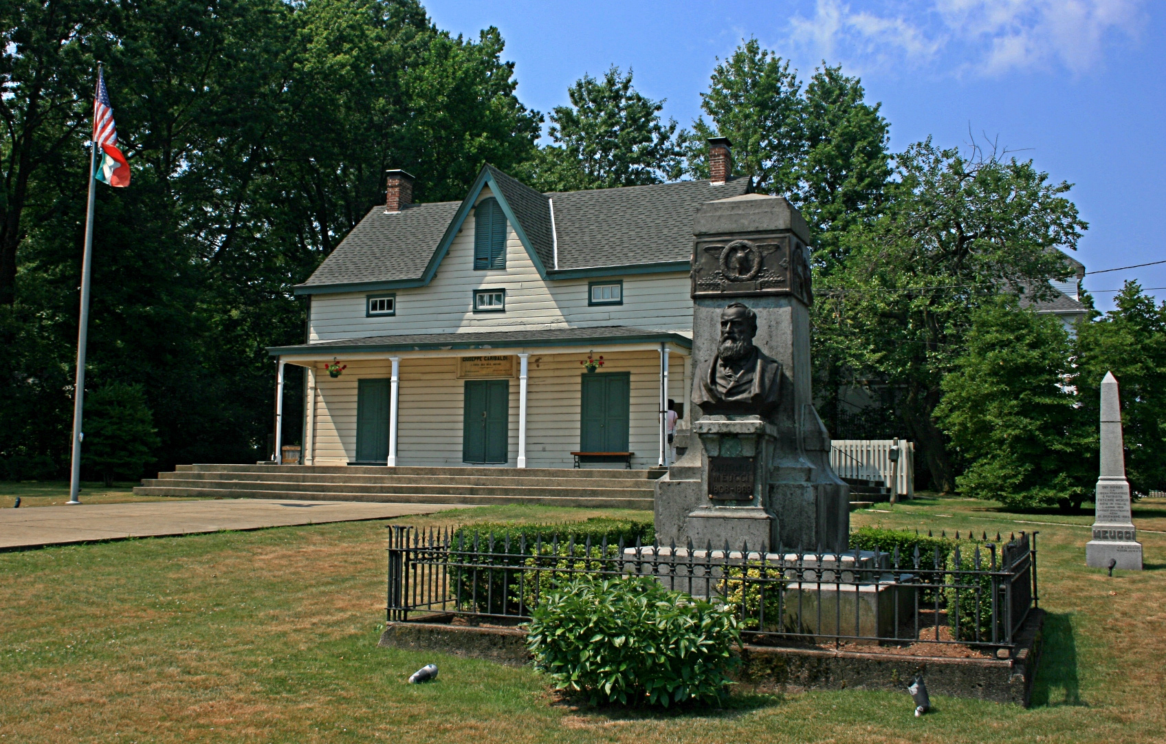 Looking southwest at the front of the Garibaldi-Meucci House, 420 Tompkins Avenue, Staten Island, New York. NYCLPC designation 1965.